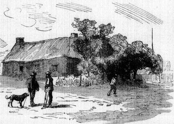 Griquatown or Grikwastad. Griqualand West. Southern Africa. 1820.